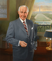 Speaker U.S. House of Representatives Robert H. Michel (1923-2017), an official picture